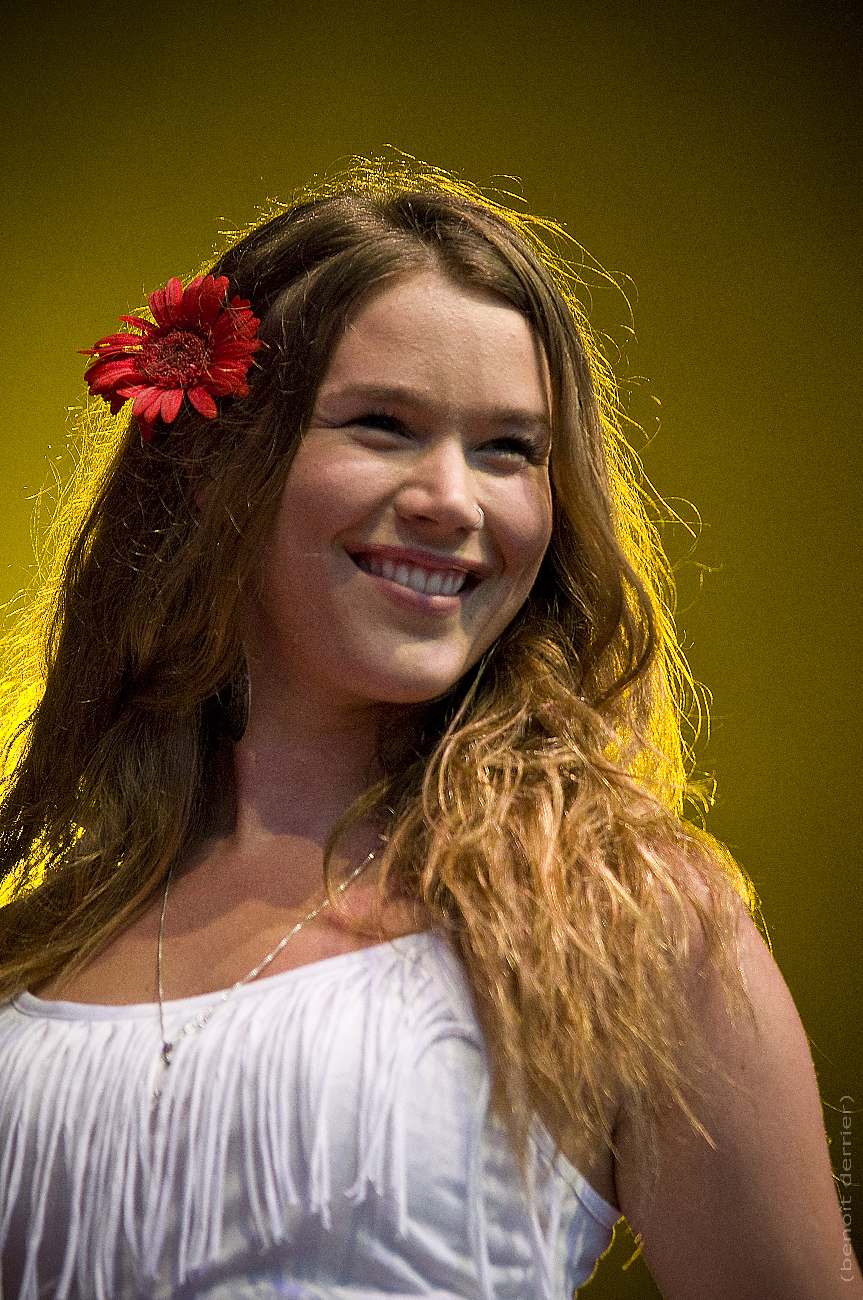 Joss Stone at Stockholm jazz fest, 19th July, 2009.